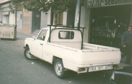 Wartburg pick-up in Salamanca, Spain, 5 November 1995.